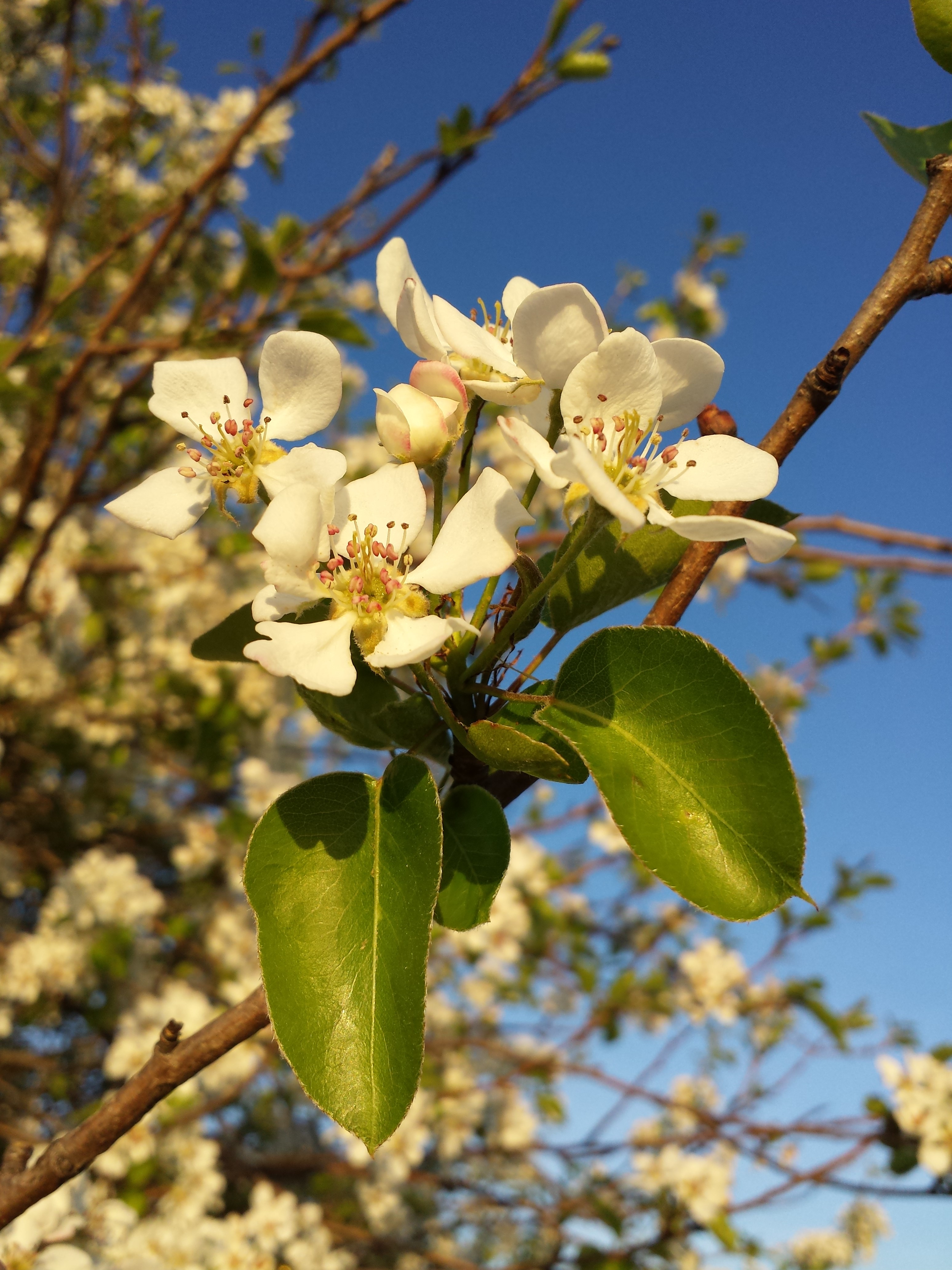 Branch with inflorescence Taxonym: Pyrus pyraster ss. Fischer et al. EfÖLS 2008 ISBN 978-3-85474-187-9 Location: Steinberg near Niederhollabrunn, district Korneuburg, Lower Austria - ca. 375 m a.s.l. Habitat: semi-dry grassland